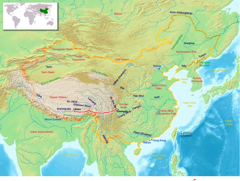 Tibet- Sichuan railway line